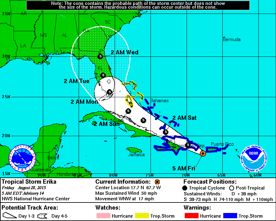 The National Hurricane Center's forecast track for Tropical Storm Erika on August 28, 2015, depicting the storm traversing the entirety of the Florida Peninsula.